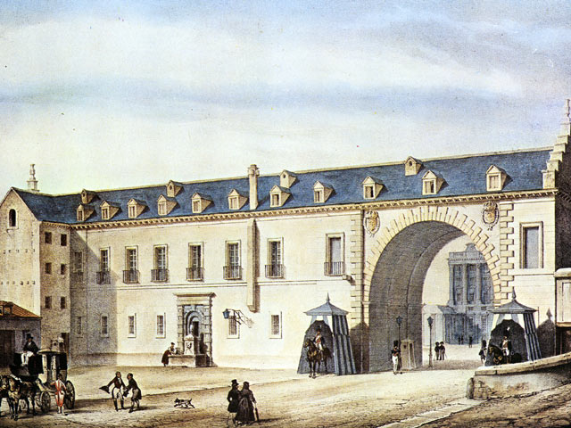 Former building of the Royal Armoury of Madrid. Behind the building it can see part of the royal palace. Old engraving.